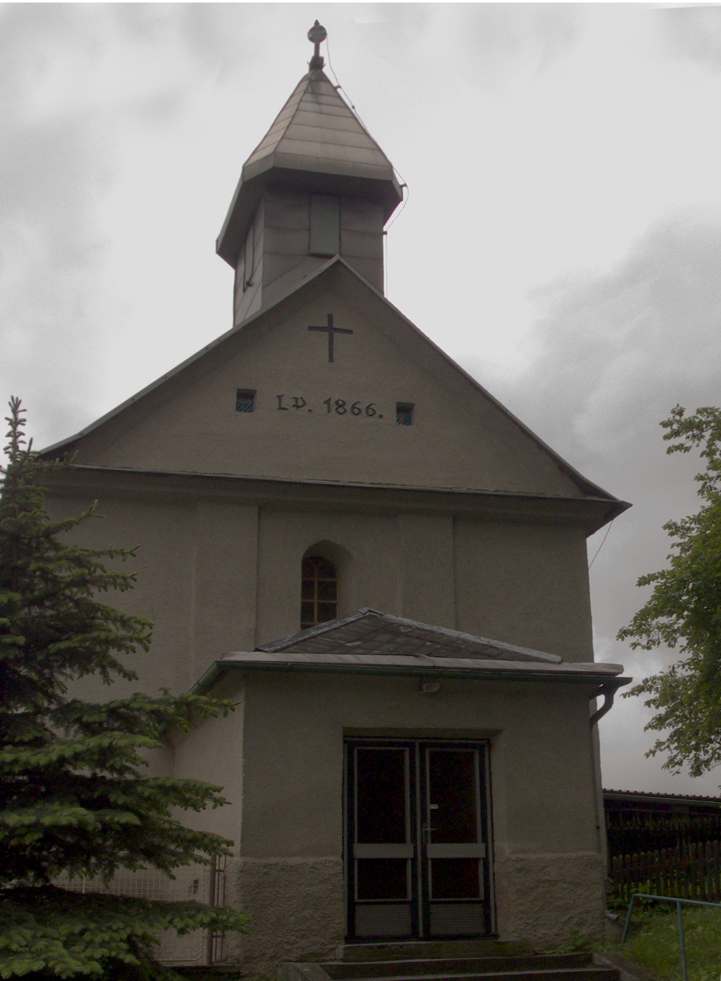 Church in Radomilov